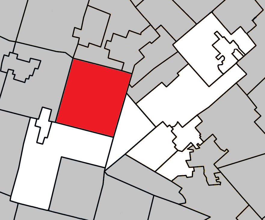 Location of Saint-Adolphe-d'Howard, Quebec within Les Pays-d'en-Haut Regional County Municipality.